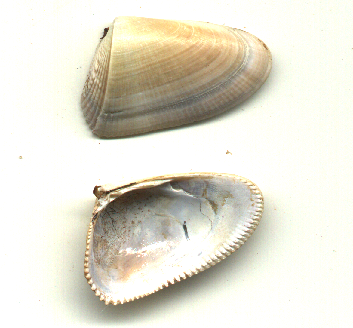 A shell of the bivalve mollusk Donax hanleyanus.